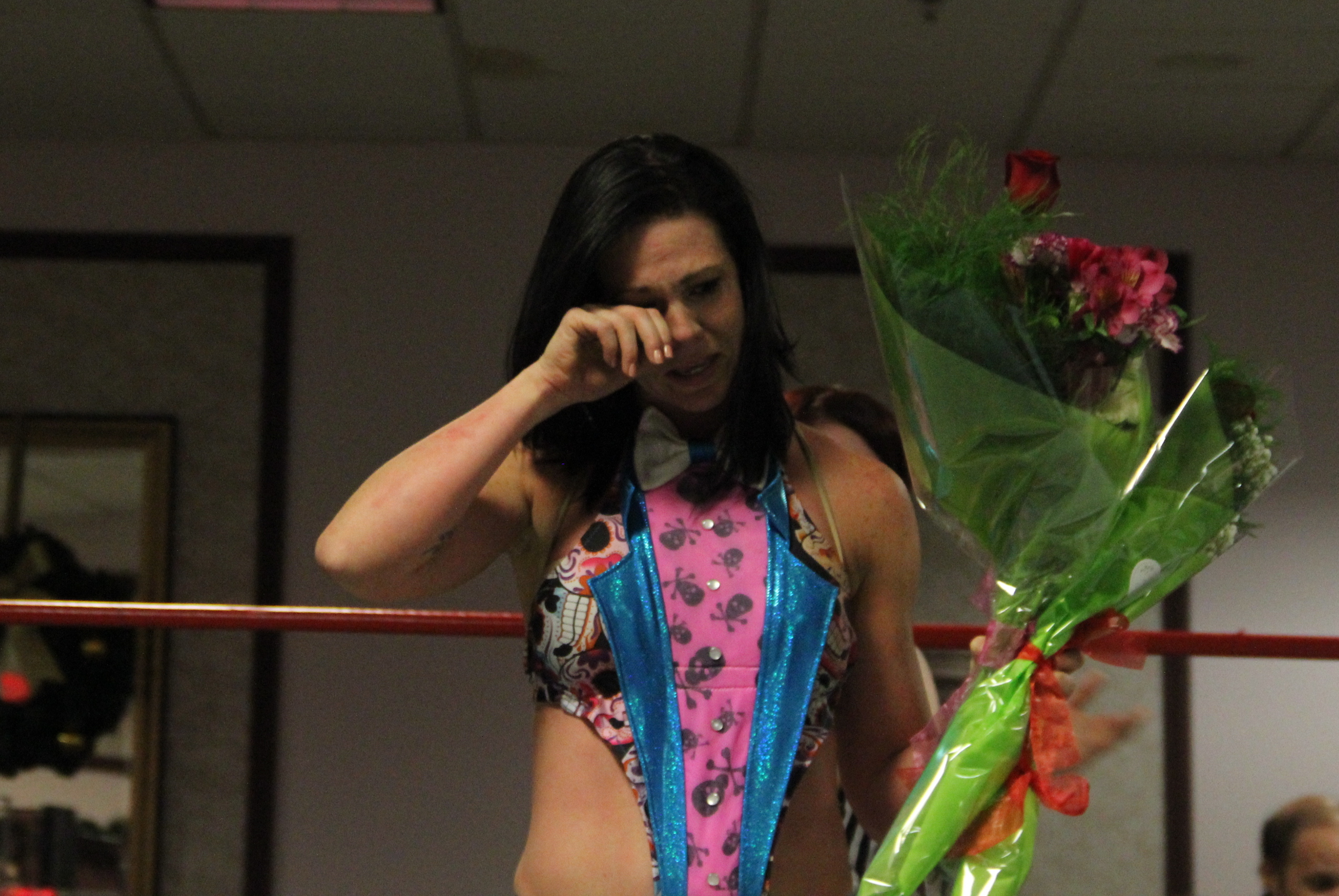 Professional wrestler Nikki Roxx after her retirement match.